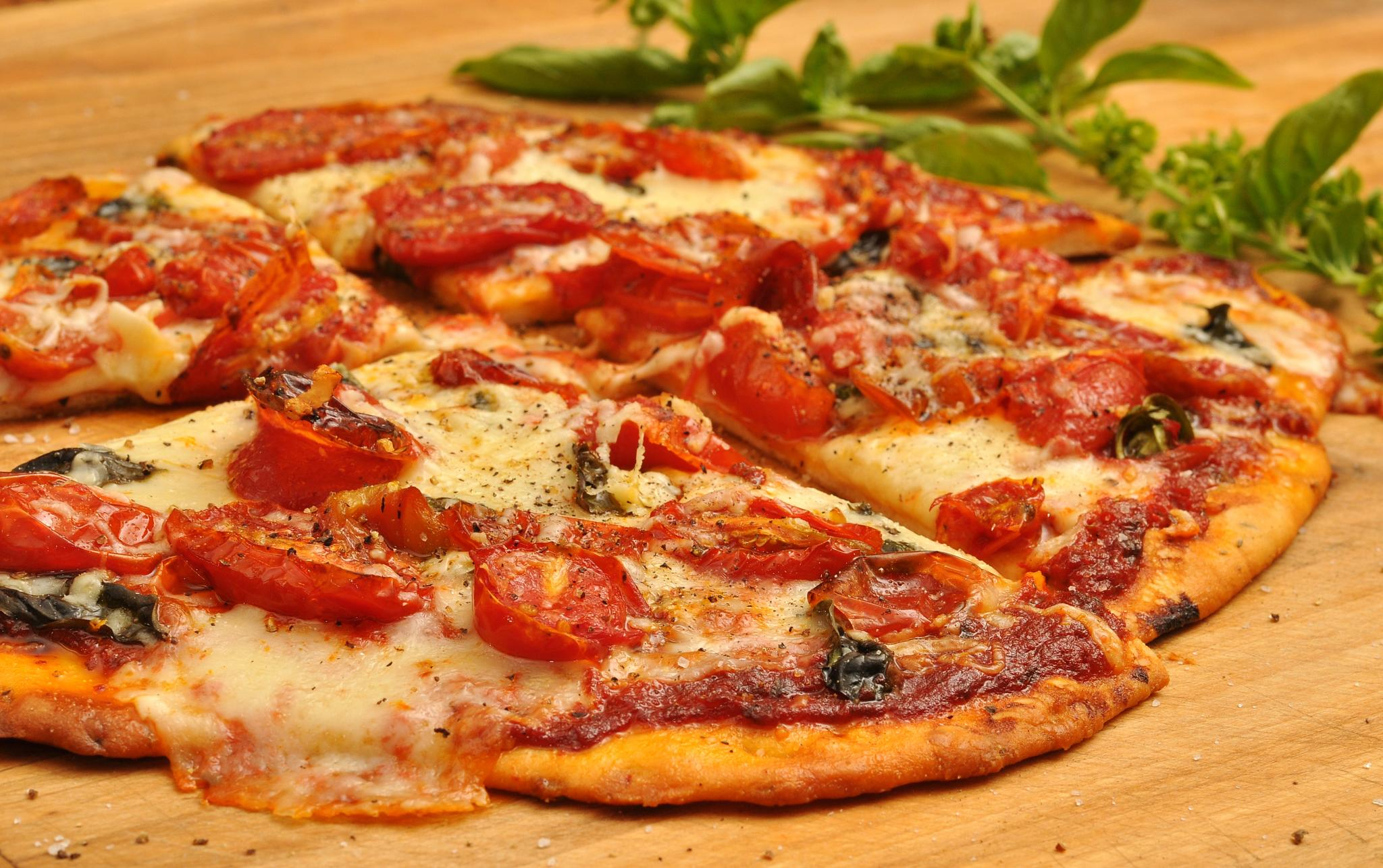 Pizza with tomatoes